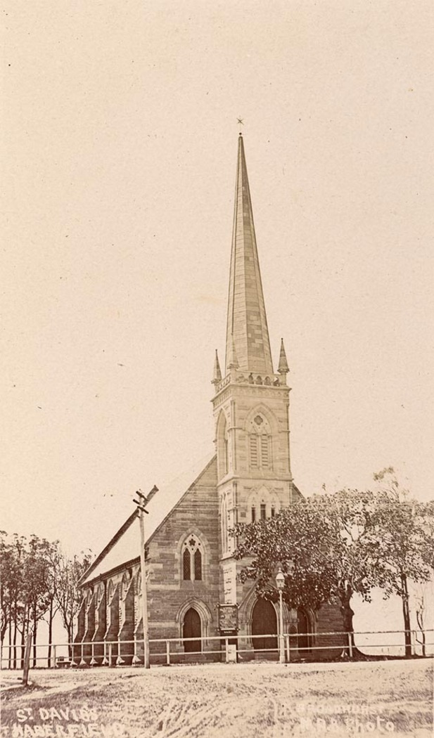 Bridal Veil Falls, Leura, in the Blue Mountains National Park, New South Wales, Australia